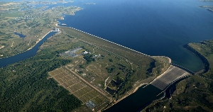 Aerial view of the dam complex